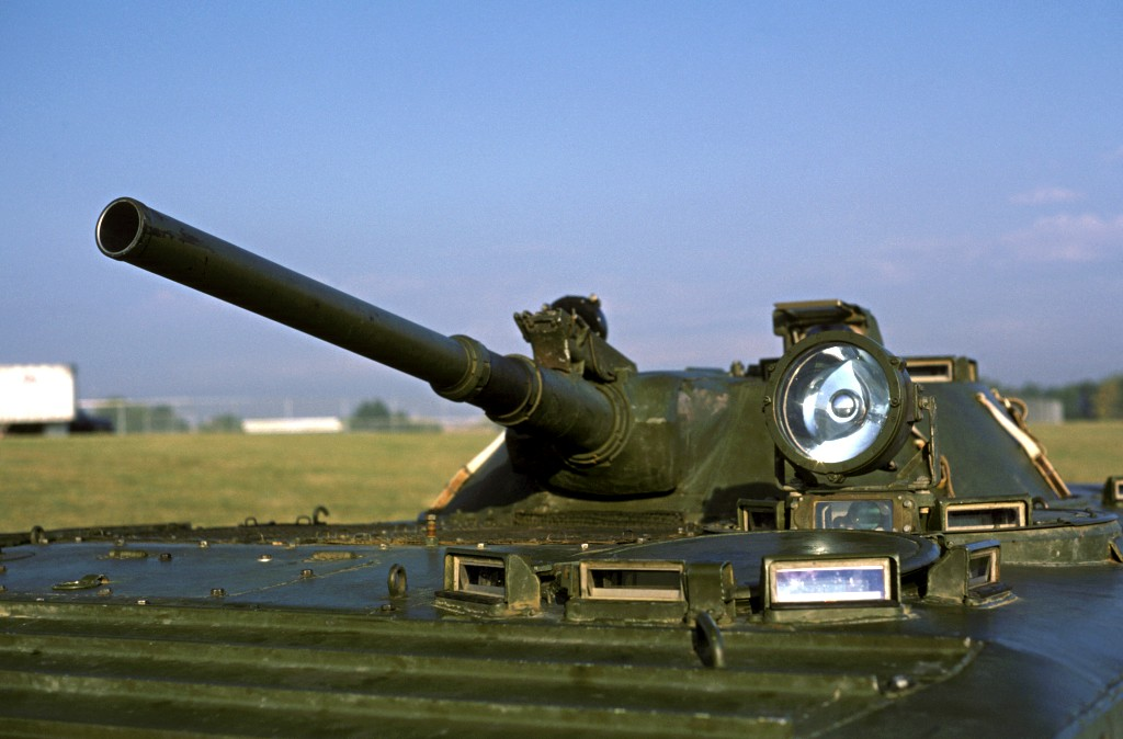 Detailed view of BMP-1's turret on display at Bolling Air Force Base.